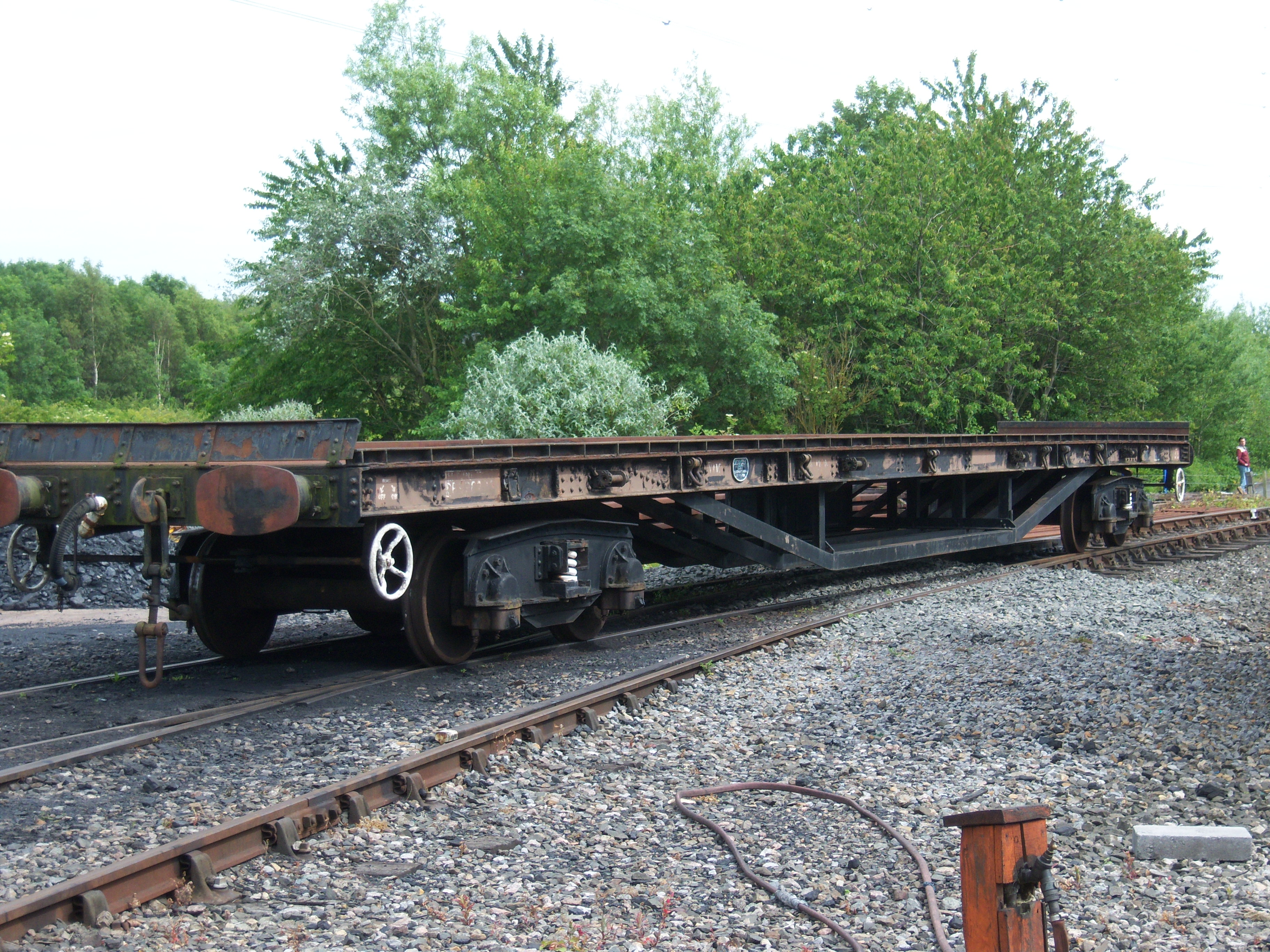 The salmon wagon, seen on the North Tyneside Steam Railway, in the yard south of the workshop/shed building.